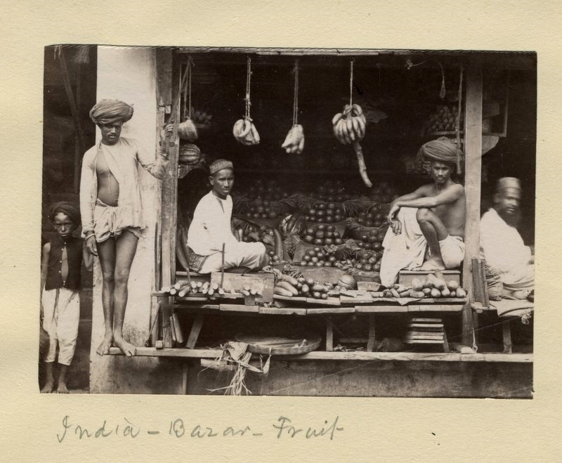 Kachhi tribes in a fruit shop in a bazaar, India